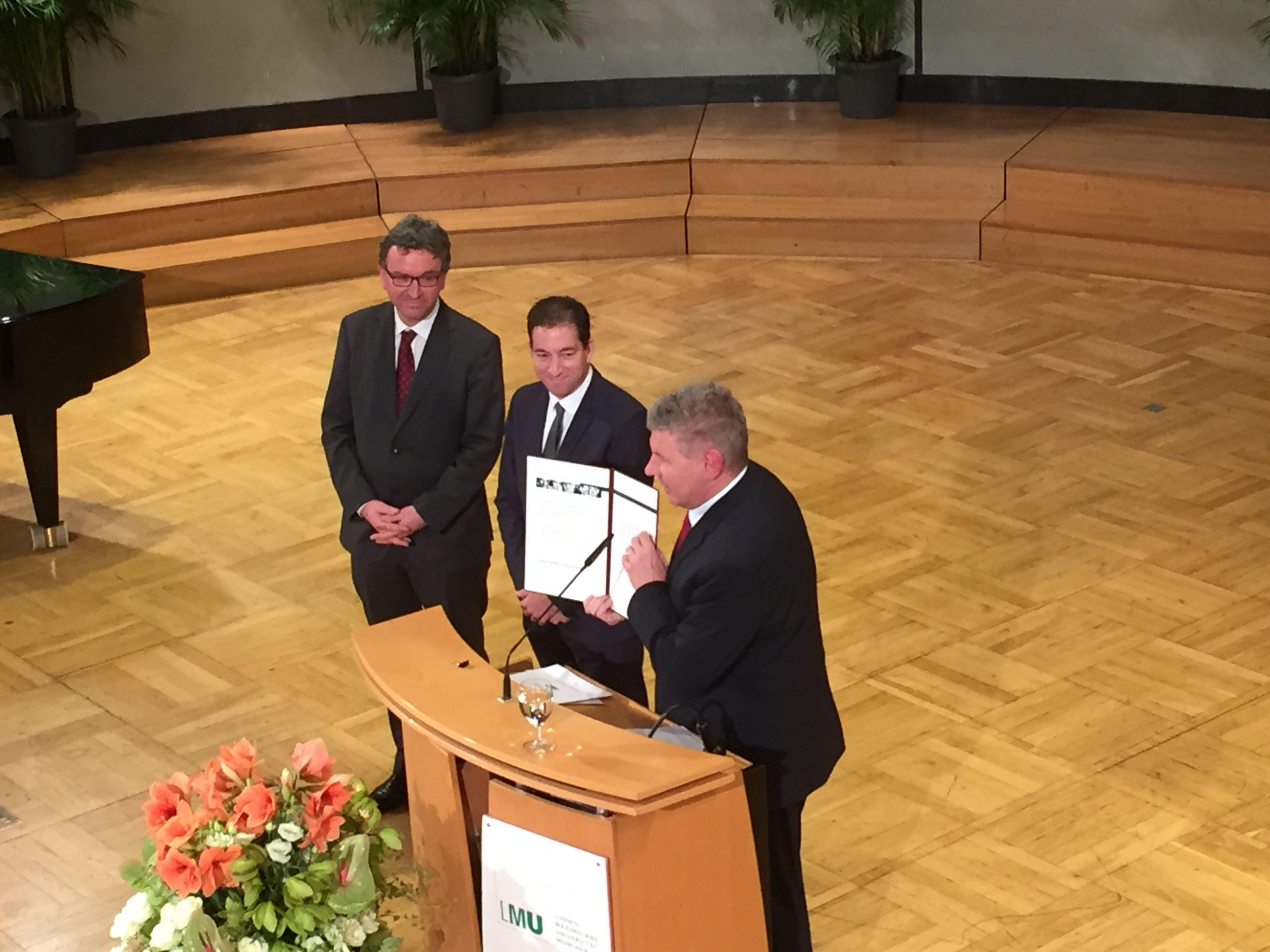 Geschwister-Scholl-Award 2014 for Glenn Greenwald, Munich, University LMU